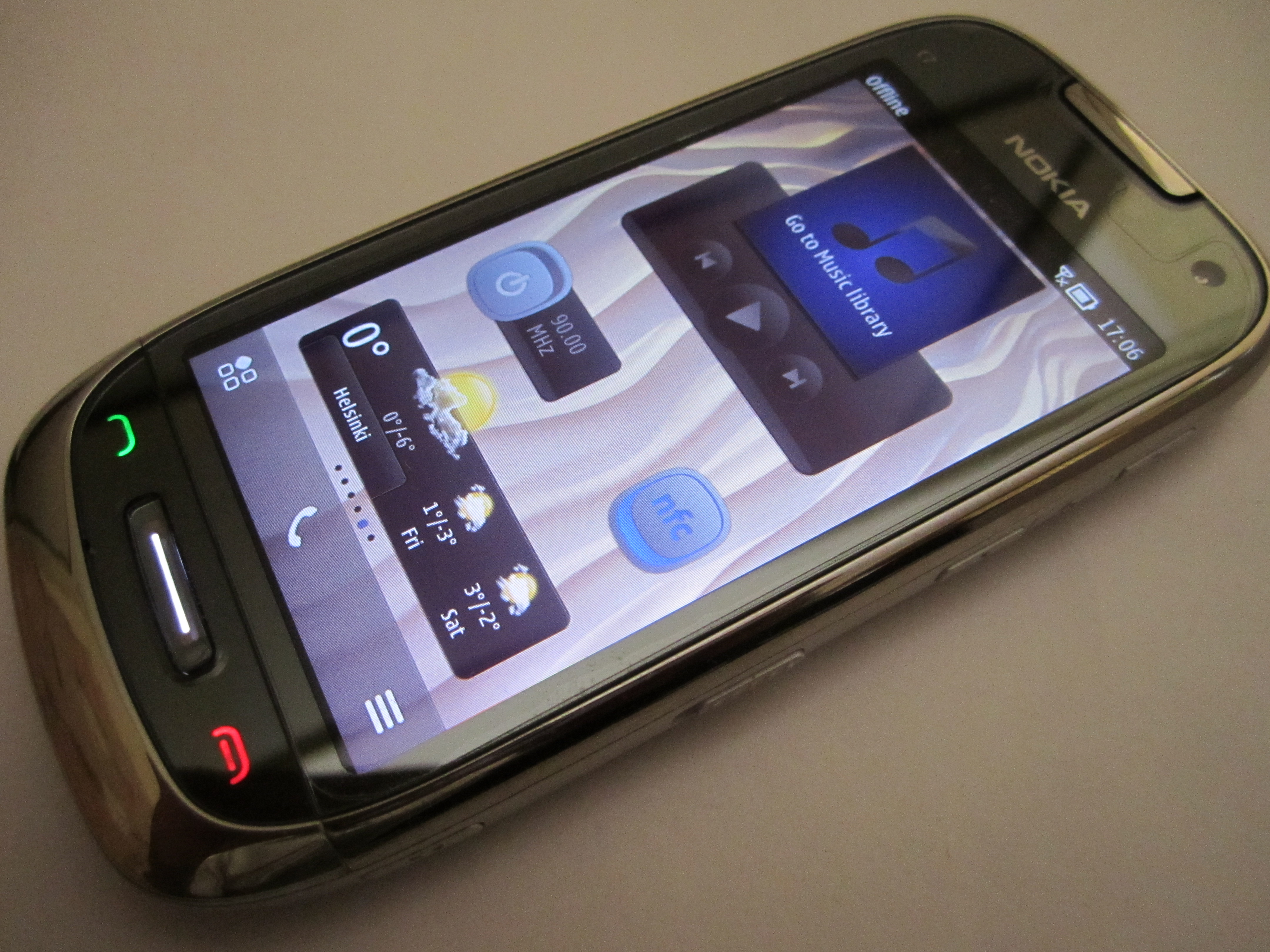 Nokia C7 device running the latest version of Symbian i.e. Nokia Belle v111.030.0609